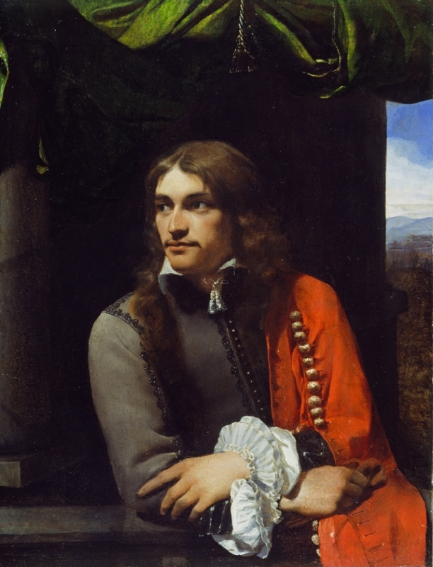 Portrait of a Man, possibly Jean Deutz, with a Red Cloak